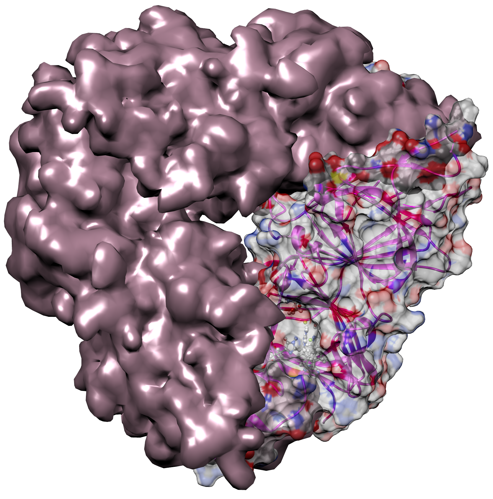 Crystal structure of pumpkin seed globulin with molecular surface. Visualized with UCSF Chimera. PDB: 2EVX